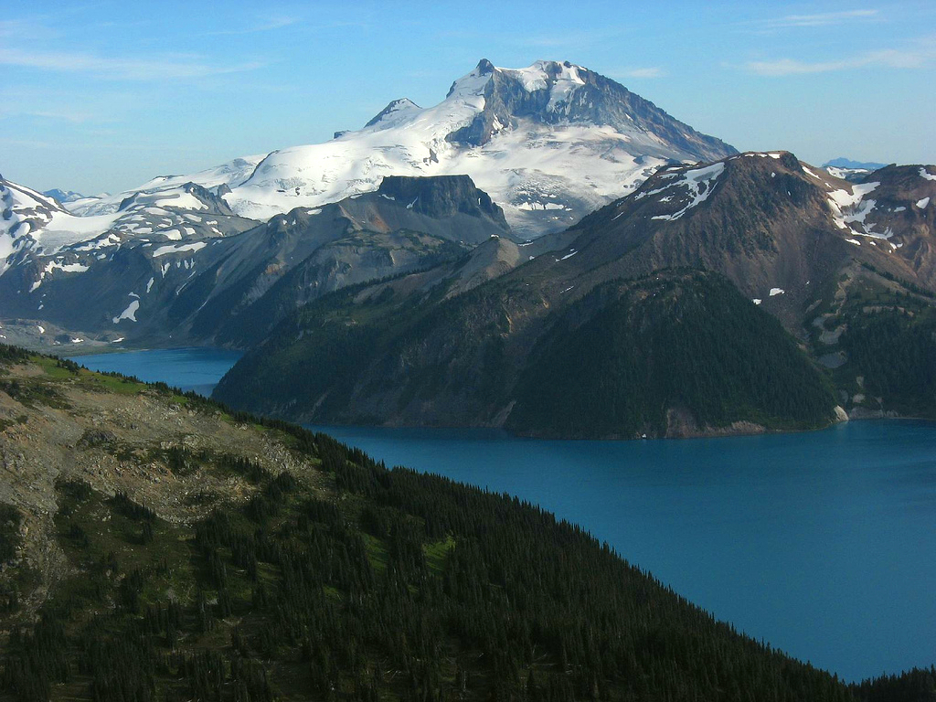 Mount Garibaldi as seen from Black TuskLate Afternoon Light